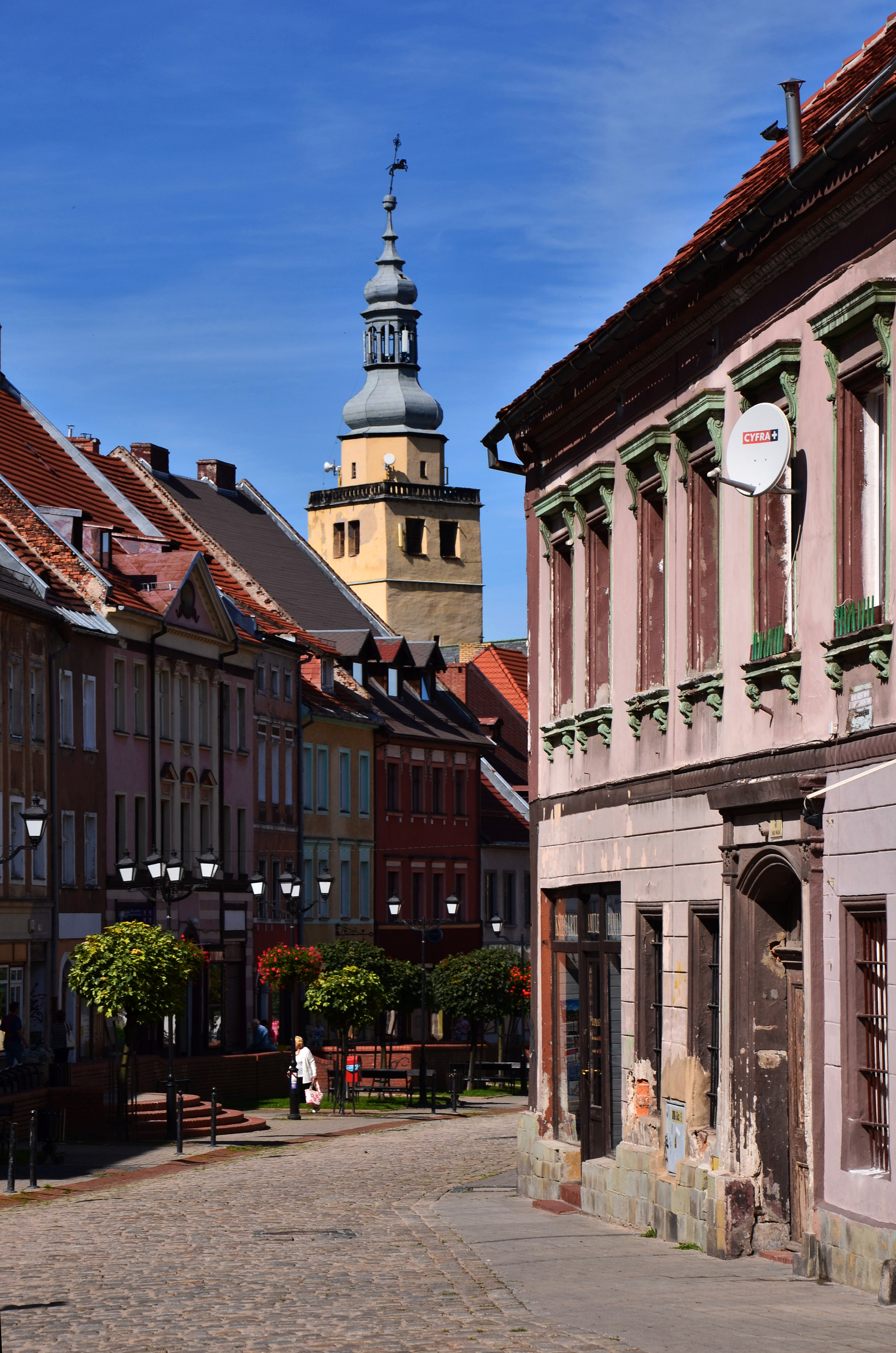 Kowary center. Poland.